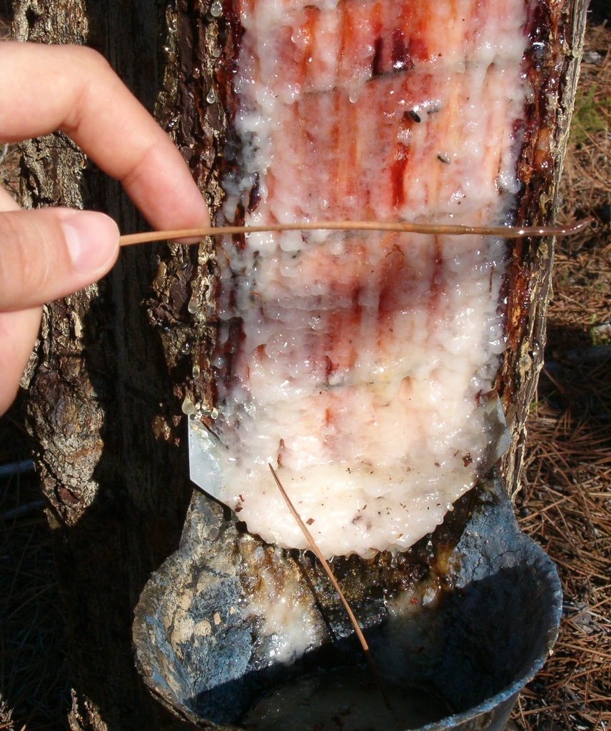 Gemmage_of_Pinus_in_Portugal